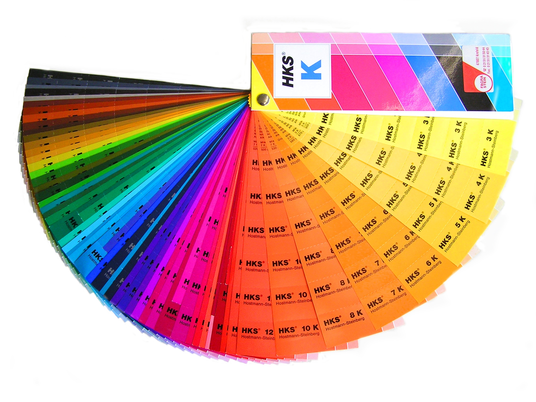 Color fan of the HKS color system. The K stands for Kunstpapier (coated paper).